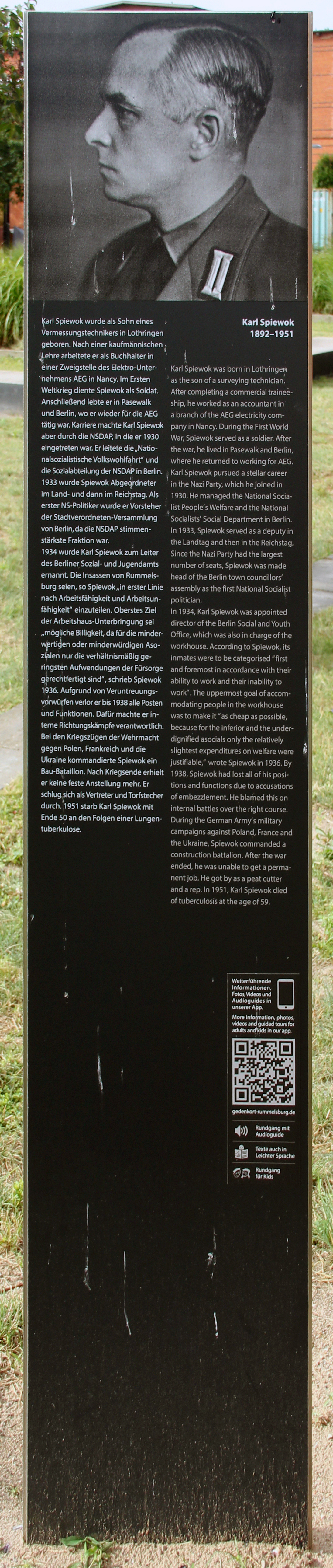 Memorial plaque, Karl Spiewok, Hauptstraße 8, Berlin-Rummelsburg, Deutschland